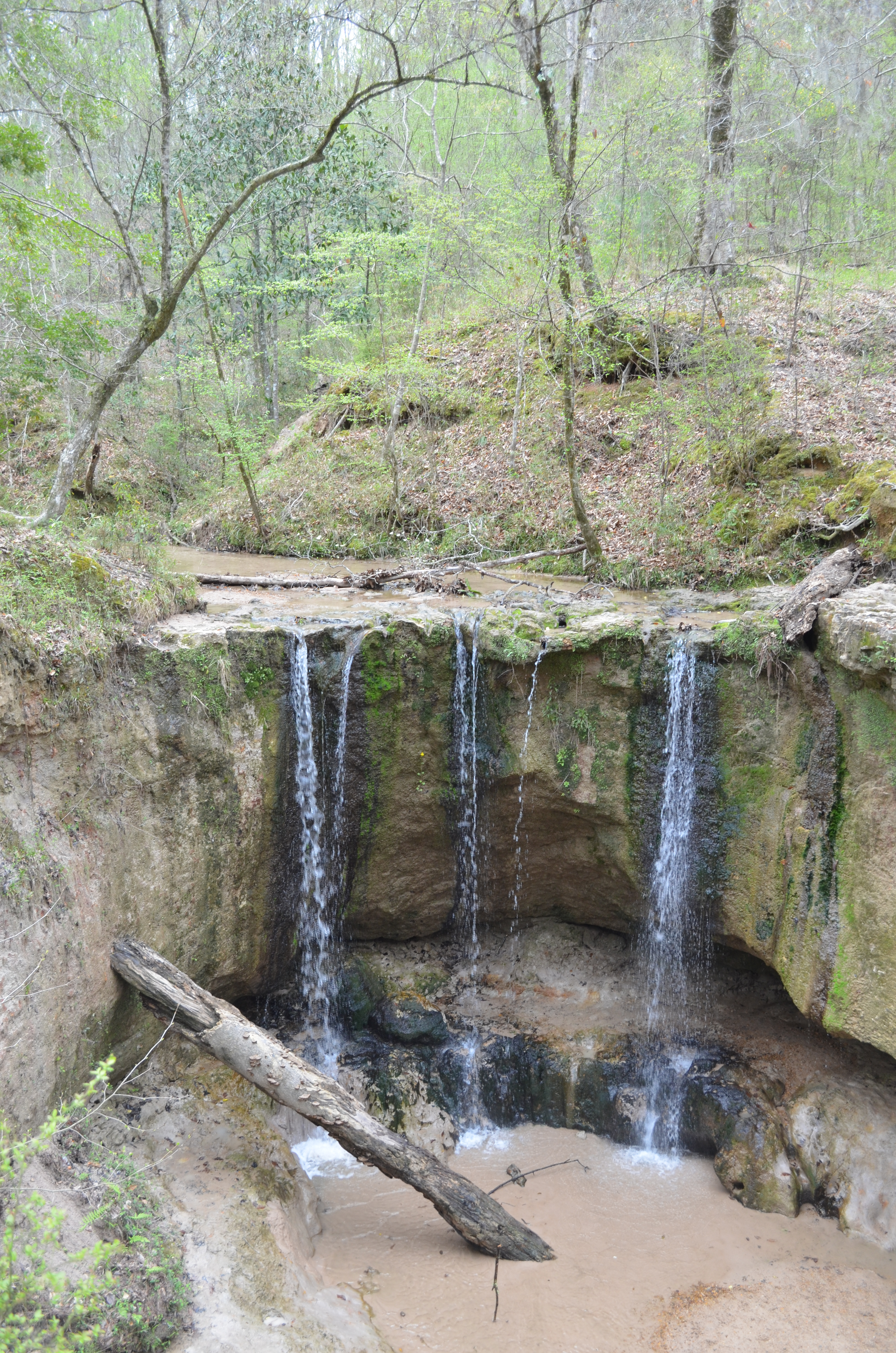 Waterfall at Clark Creek Natural Area, near Pond, Wilkinson County, Mississippi